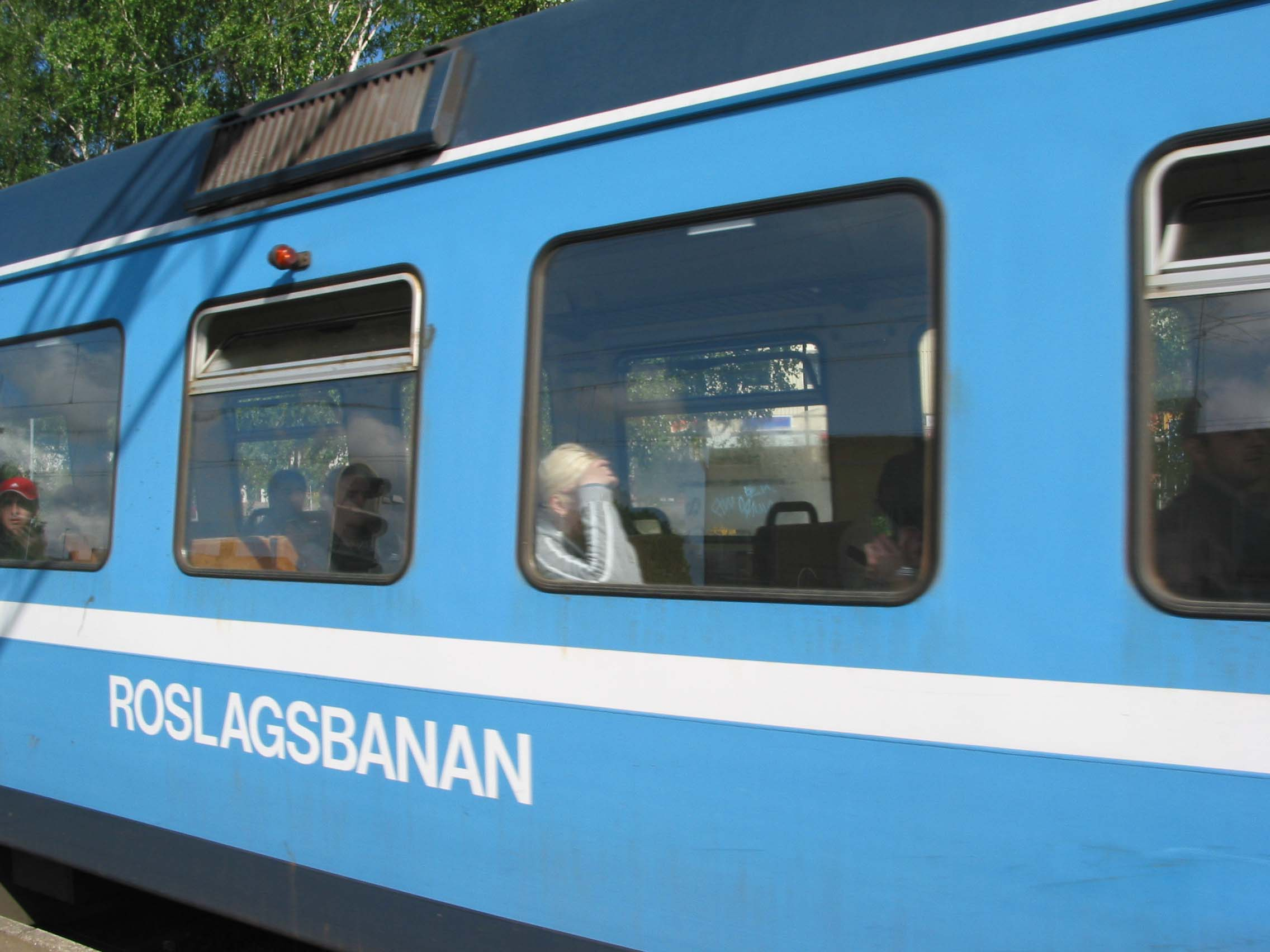 A train on the Roslagsbanan entering Roslags Näsby station.